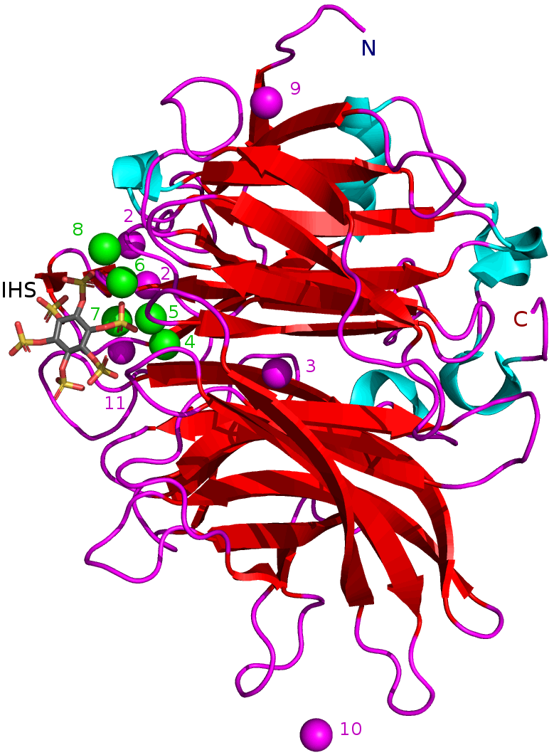 1.25 Å crystal structure of a β-propeller phytase in complex with IHS from Bacillus subtilis. Released: 2011-04-13. PDBID: 3AMR. Catalytically important calcium ions 4-8 are in green and less important calcium ions 1-3 and 9-11 are in magenta. N- and C-terminals, propeller "blades" and myo-inositol hexasulfate (IHS, a phytate analogue) are shown in the picture. Organism(s): Bacillus subtilis Expression System: Escherichia coli This picture is made with PyMOL version 2.0.4 and is based on the following study: Zeng, Yi-Fang; Ko, Tzu-Ping; Lai, Hui-Lin; Cheng, Ya-Shan; Wu, Tzu-Hui; Ma, Yanhe; Chen, Chun-Chi; Yang, Chii-Shen; Cheng, Kuo-Joan (2011-06-03). "Crystal structures of Bacillus alkaline phytase in complex with divalent metal ions and inositol hexasulfate". Journal of Molecular Biology. 409 (2): 214–224. ISSN 1089-8638. PMID 21463636.